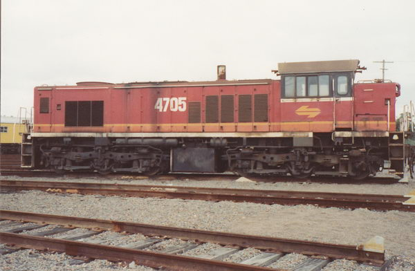 4705 at broadmeadow loco circa 1990